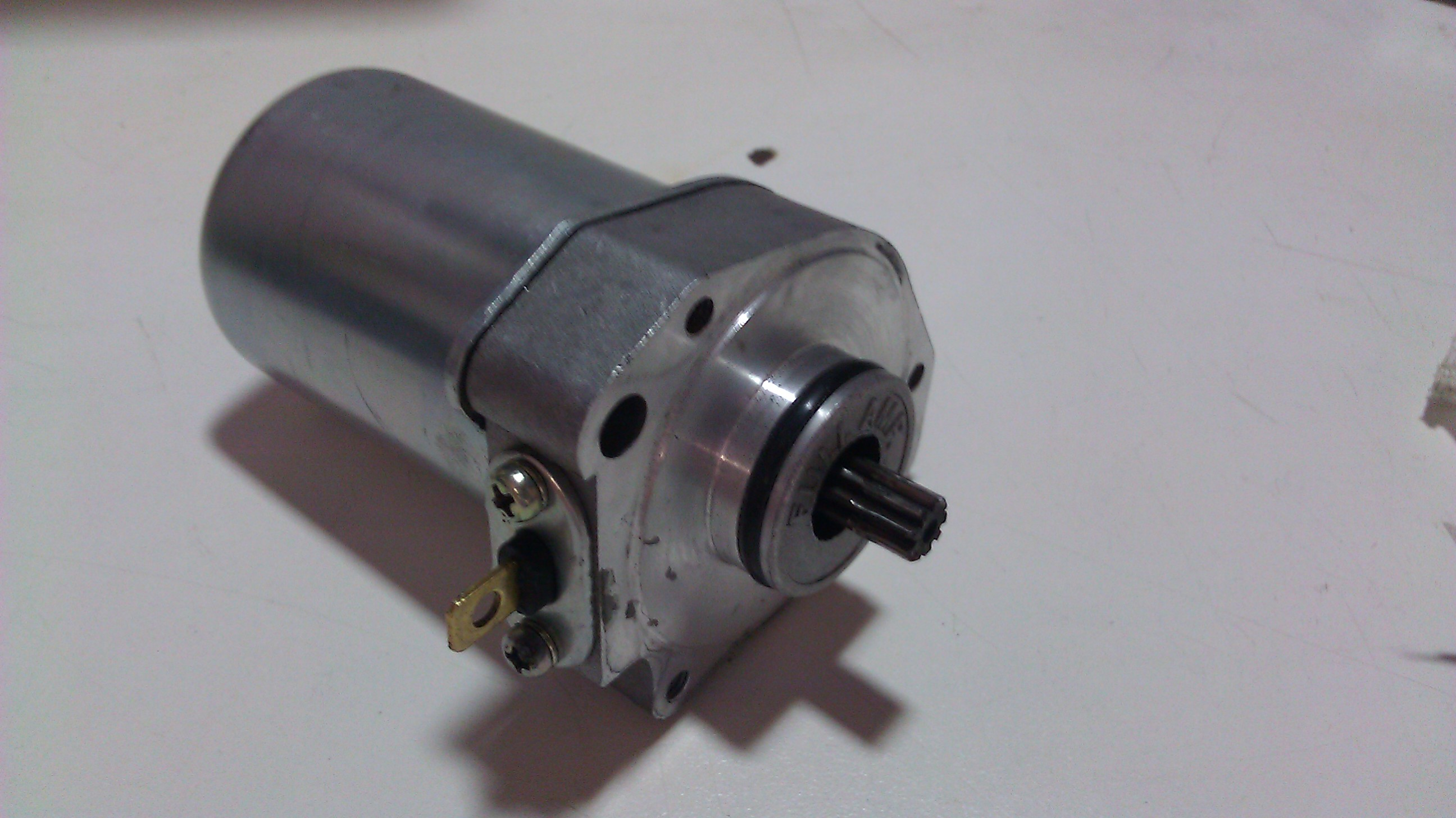 View of the starter, from the right front.